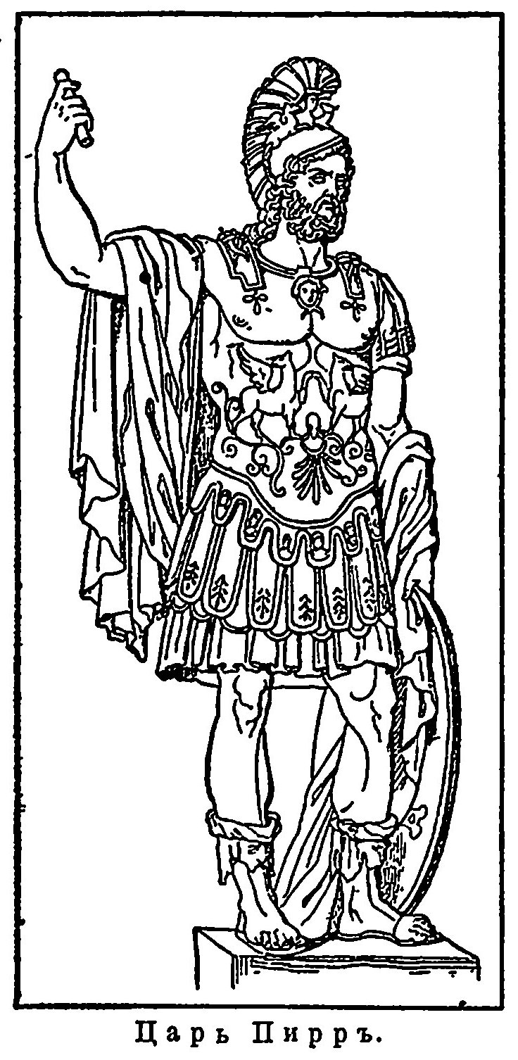 Pyrrhus (/ˈpɪrəs/; Ancient Greek: Πύρρος, Pyrrhos; 319/318–272 BC) was a Greek general and statesman of the Hellenistic period.